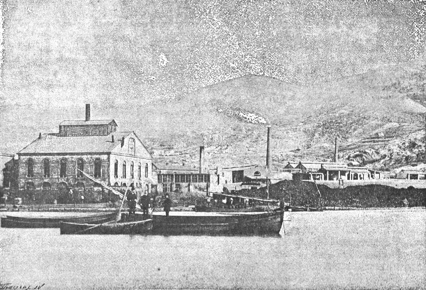 The Crystal and Glass Factory of Santa Lucía, in a photogravure published by the graphic magazine Cartagena Artística in 1890. The industrial building opened its doors in 1834 by the initiative of the businessman Tomás Valarino y Gattorno (1801-1877), and maintained its activity until 1955.